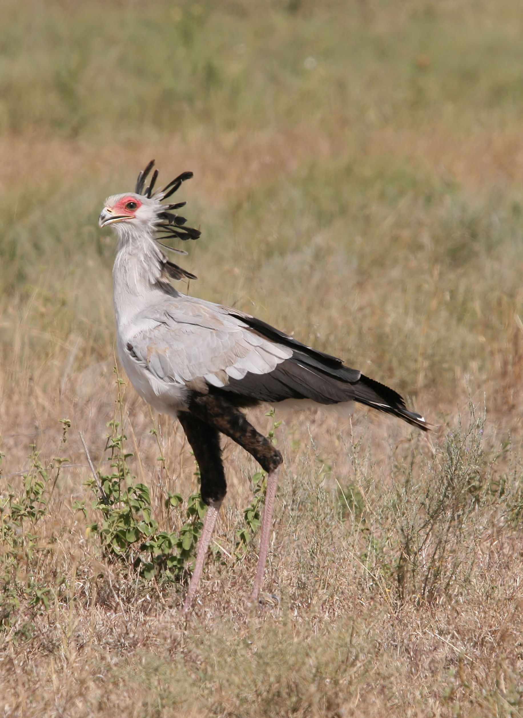 Secretary Bird (Sagittarius serpentarius), picture taken at Serengeti Nationalpark, Tanzania